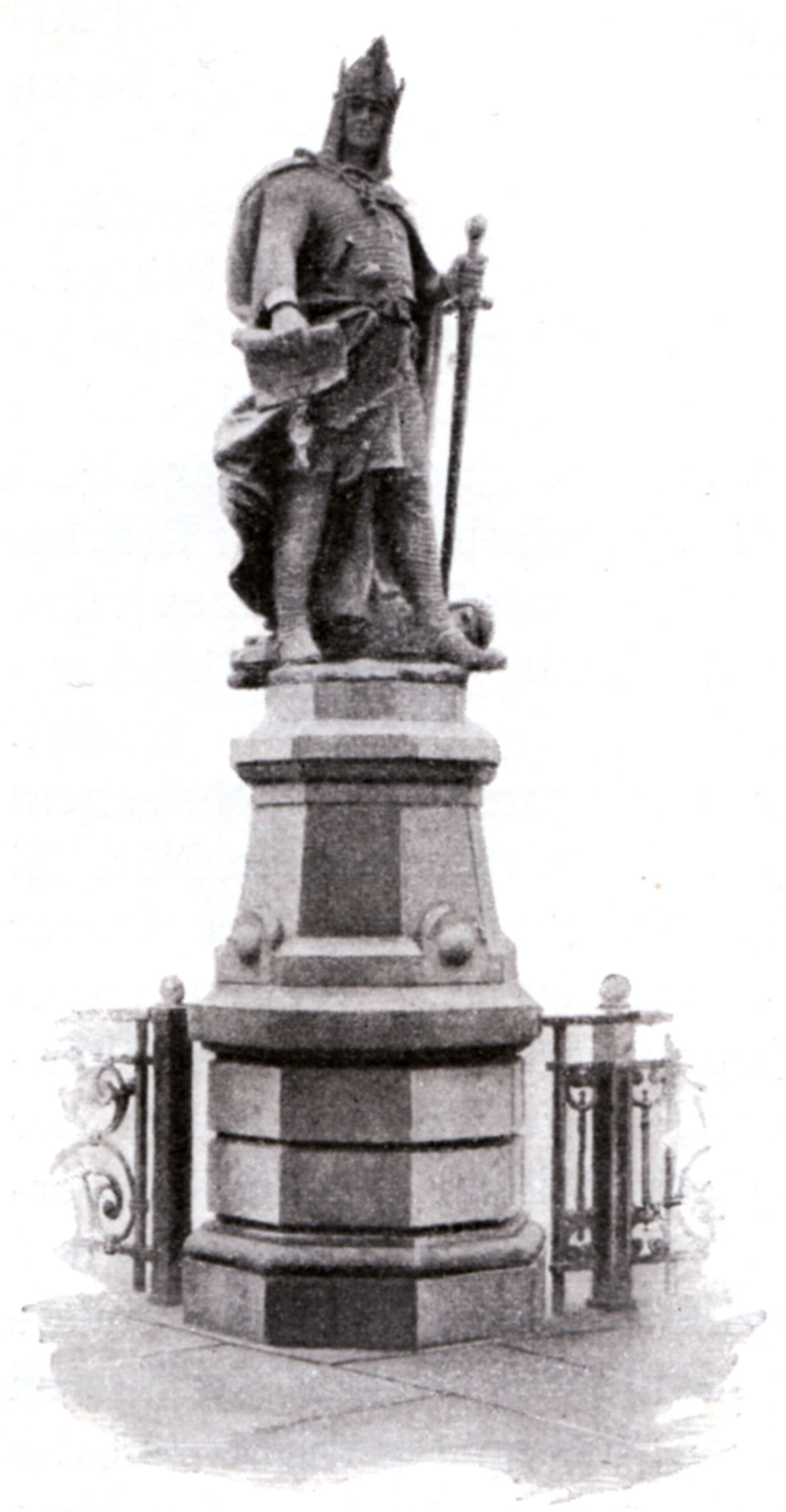 Berlin - Mühlendammbrücke, Statue Albrecht der Bär von Johannes Boese